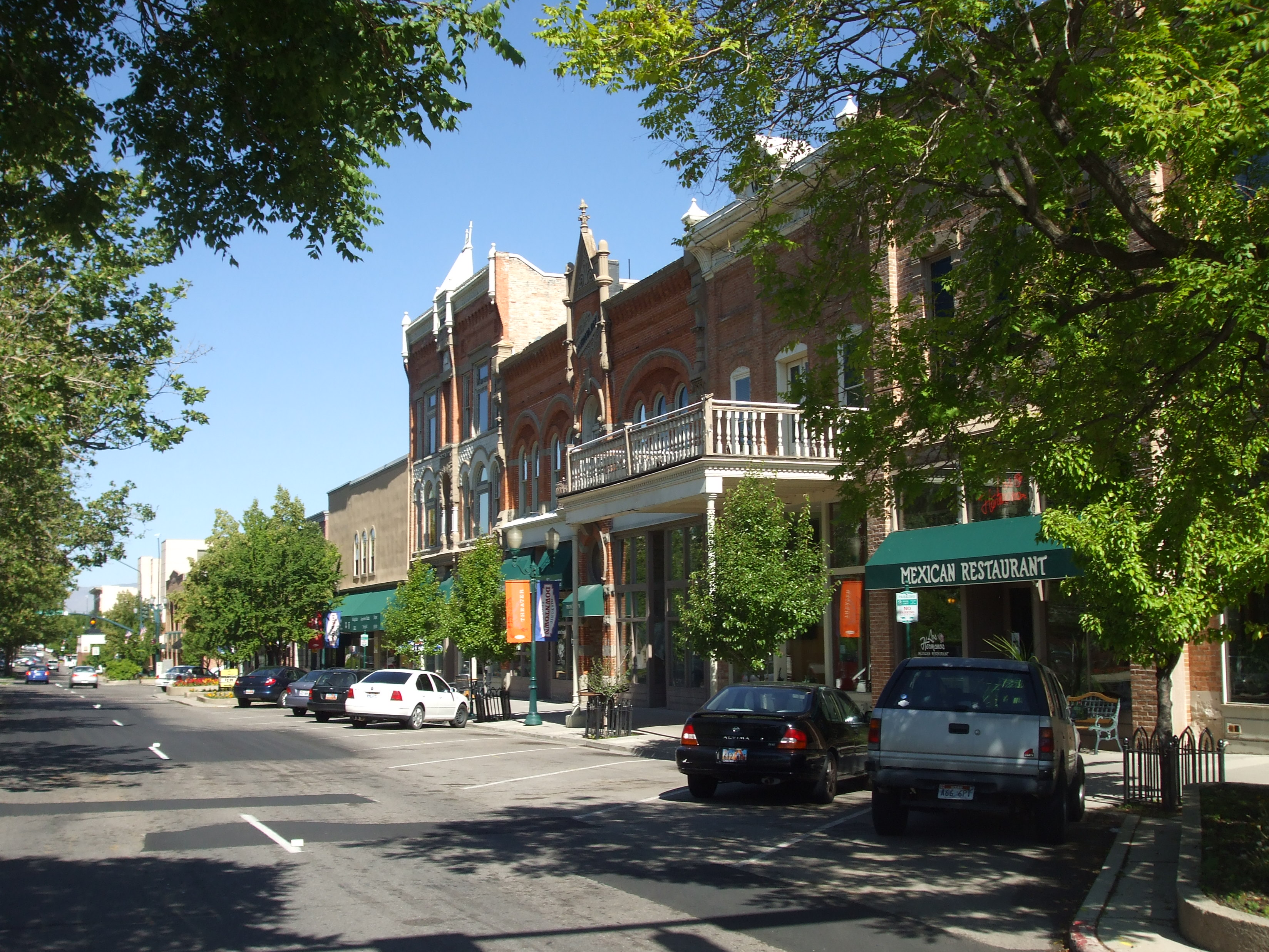 Westward view along Center St. in the Provo Downtown Historic District, Provo, Utah, United States